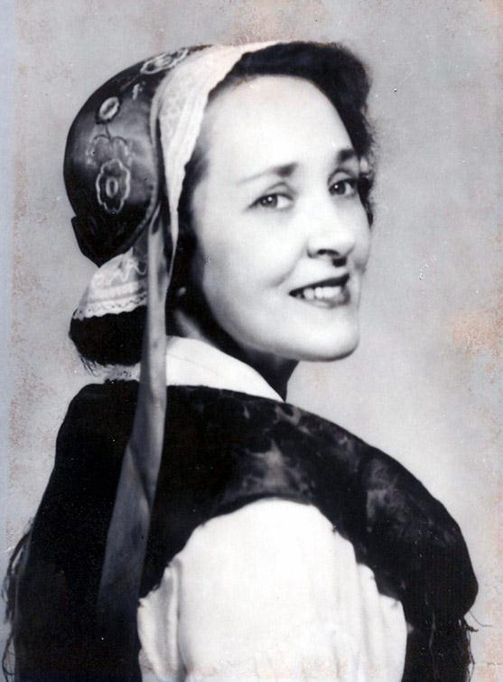 Birgit Ridderstedt (née Anderson) in Swedish Stora Tuna folk costume, as released by FamSAC (Ridderstedt didn't like the bow traditionally tied of the red ribbon at the right cheek and would break the rules about the costume in that regard.)Place: Chicago, Illinois